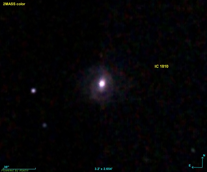 "Image created using the Aladin Sky Atlas software from the Strasbourg Astronomical Data Center and DSS (Digitized Sky Survey) data. DSS is one of the programs of STScI (Space Telescope Science Institute) whose files are in the public domain " This image is not a DSS's image!